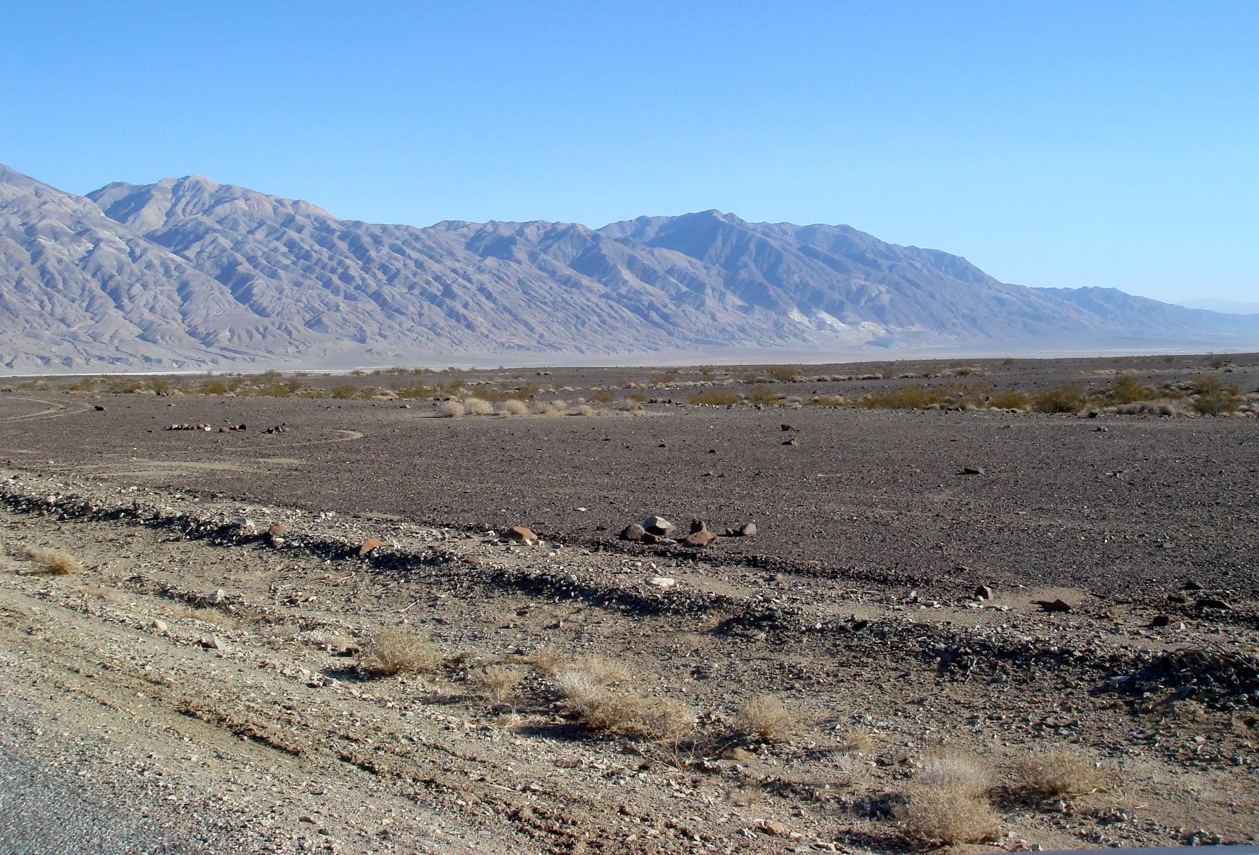 Panamint Range, from the bottom of the Panamint Valley (facing southeast).